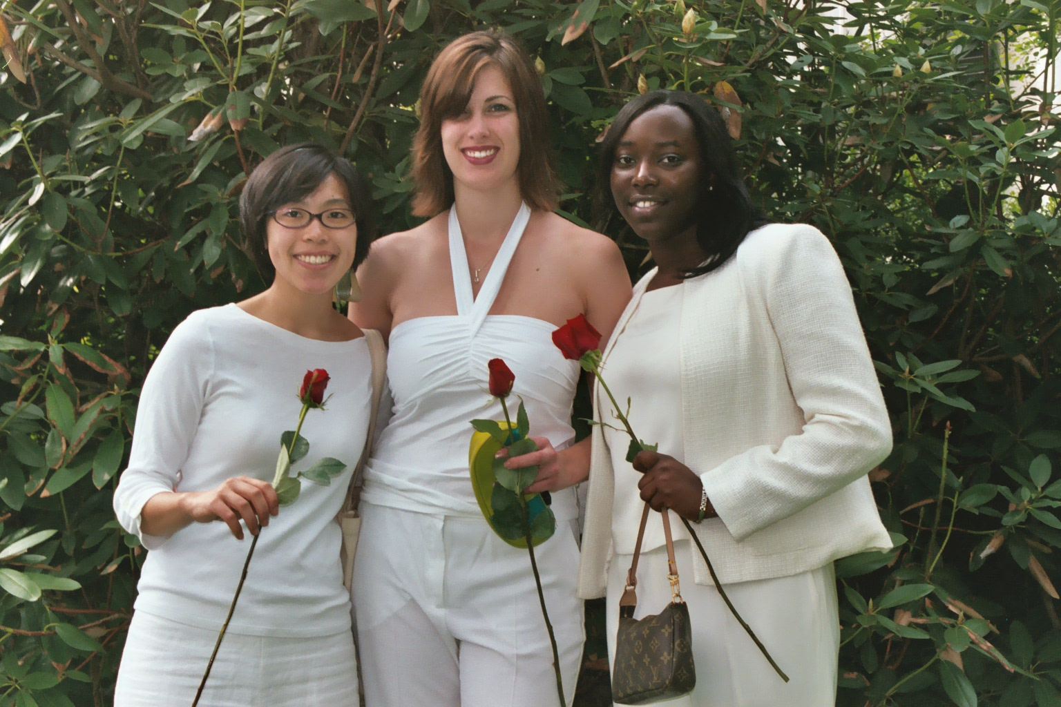 Description: Photograph of Smith College Ivy Day Seniors in Massachusetts, USA. Source: Photograph taken by [Andrea Maurizio] May 2004. Copyright: © Andrea Maurizio. Licensed under the [Creative Commons] license by photographer Andrea Maurizio(myself).